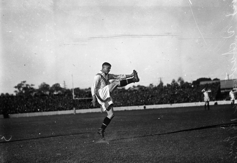 Jim Sullivan kicking for England, in a rugby league match against Australia, 1933 Sullivan (England) kicking; England vs. Australia. (Description supplied with photograph.).